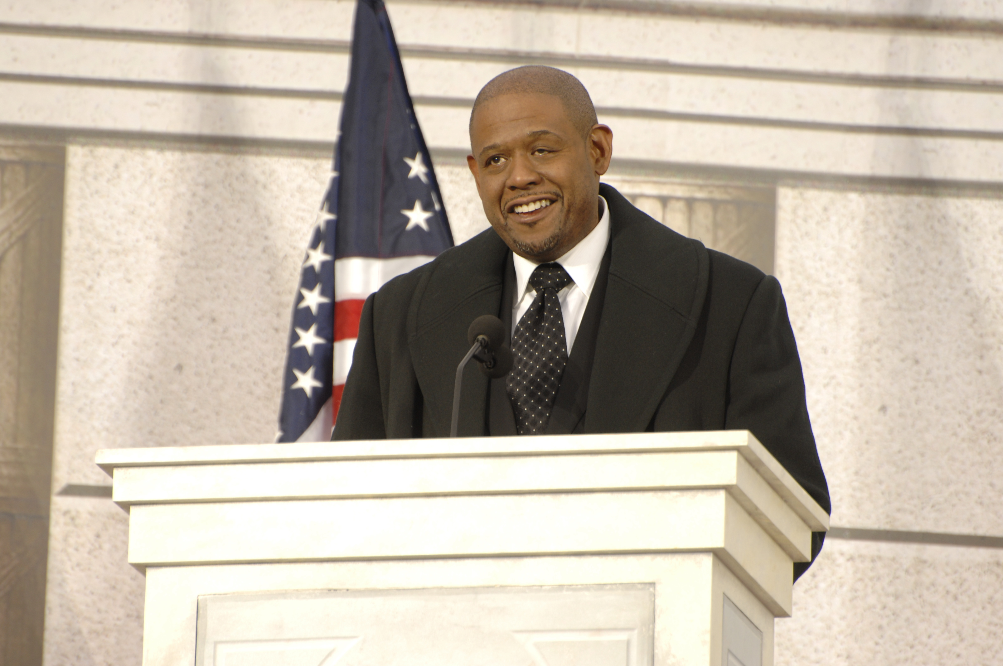 Forest Whitaker at the Lincoln Memorial on the National Mall in Washington, D.C., Jan. 18, 2009, during the inaugural opening ceremonies.